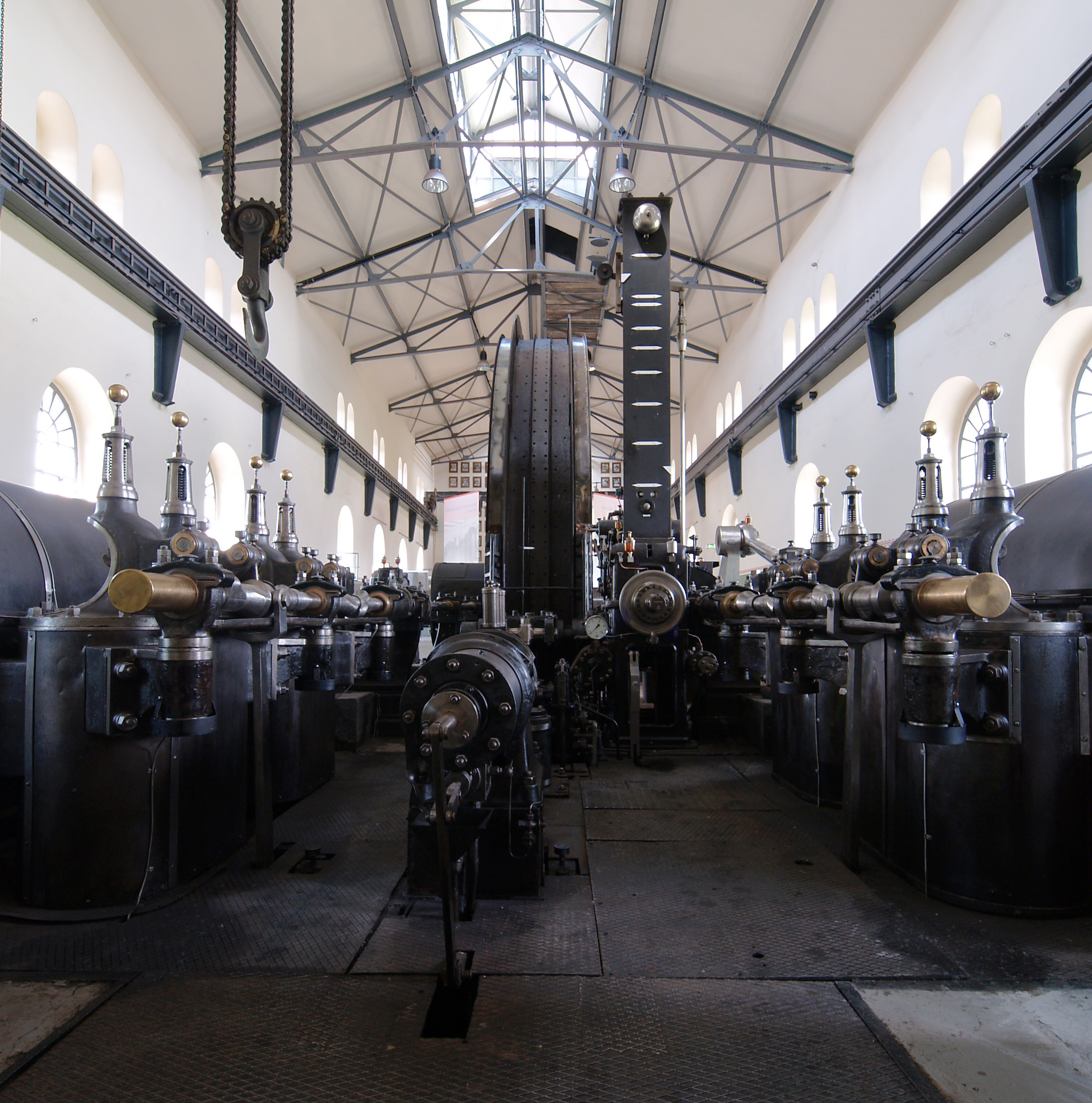 Coal mining elevator steam engine at Zeche Hannover at Bochum, Germany